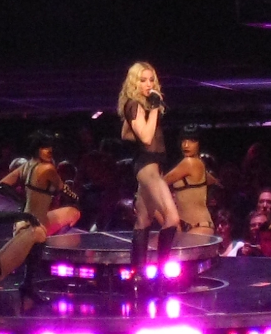 Madonna performing Vogue, with short samples from '4 Minutes' and 'Give It To Me'.